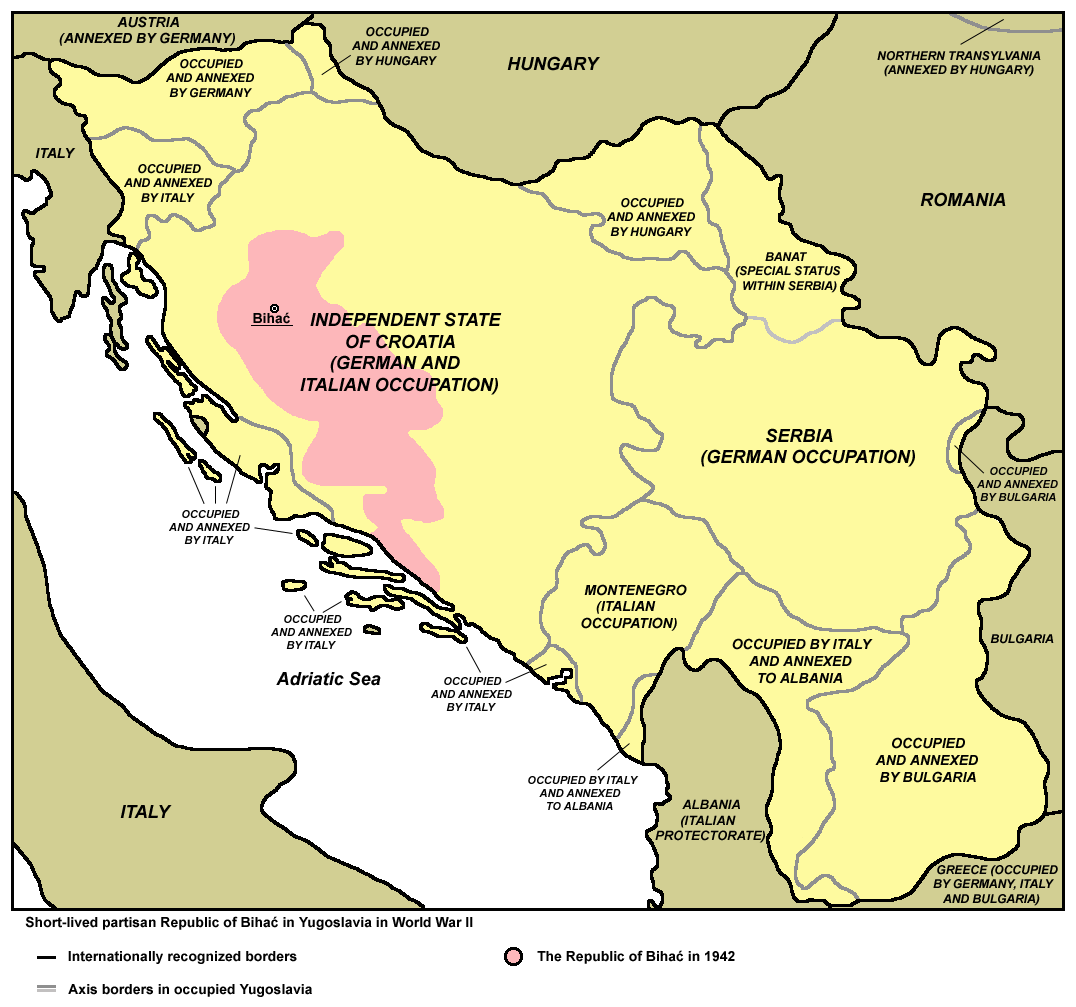 Short-lived partisan Republic of Bihać in Yugoslavia during World War II (1942). Srpskohrvatski / српскохрватски: Kratkotrajna partizanska Bihaćka republika u Jugoslaviji u vreme Drugog svetskog rata (1942).